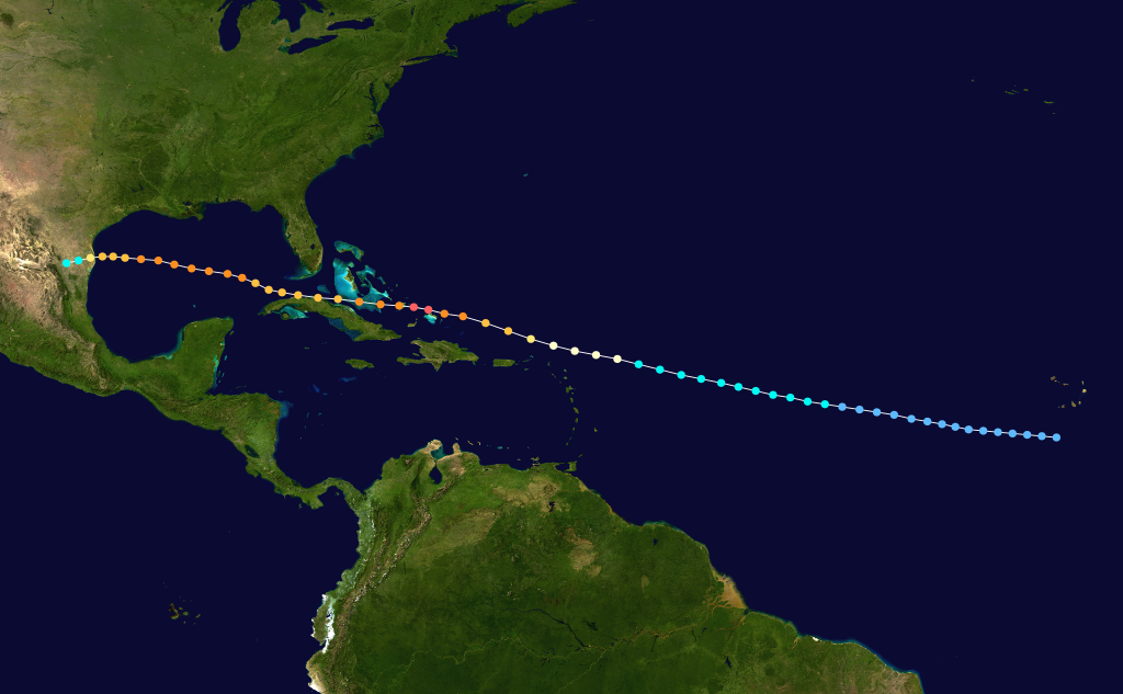 1933 Atlantic hurricane 10 track. Uses the color scheme from the Saffir-Simpson Hurricane Scale.